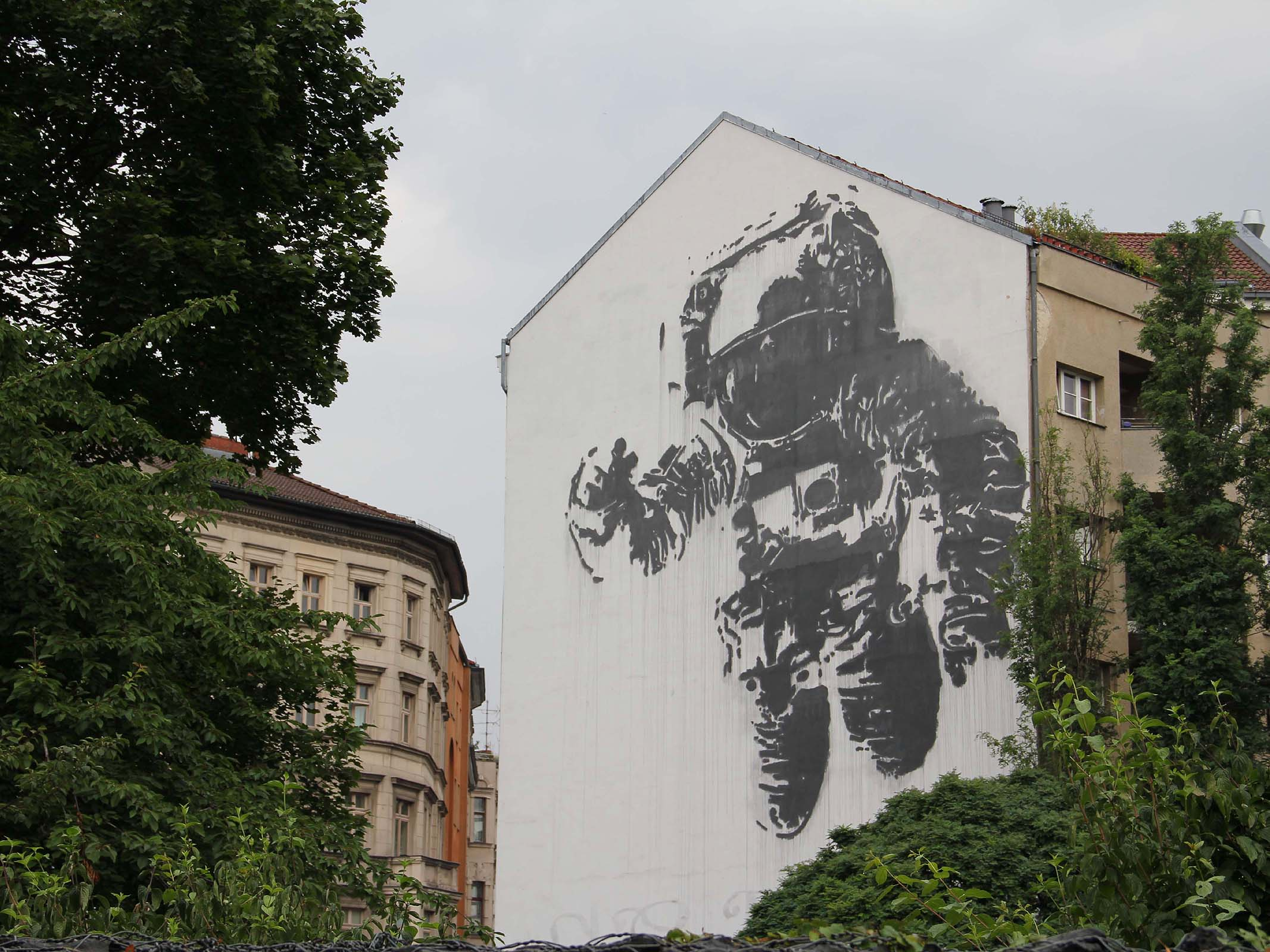 Victor Ash, Astronaut, 2007, Berlin-Kreuzberg, Cuvrystraße